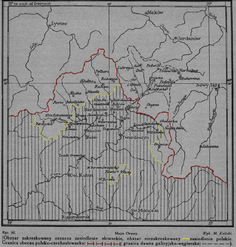 Orava map of nationality c. 1930